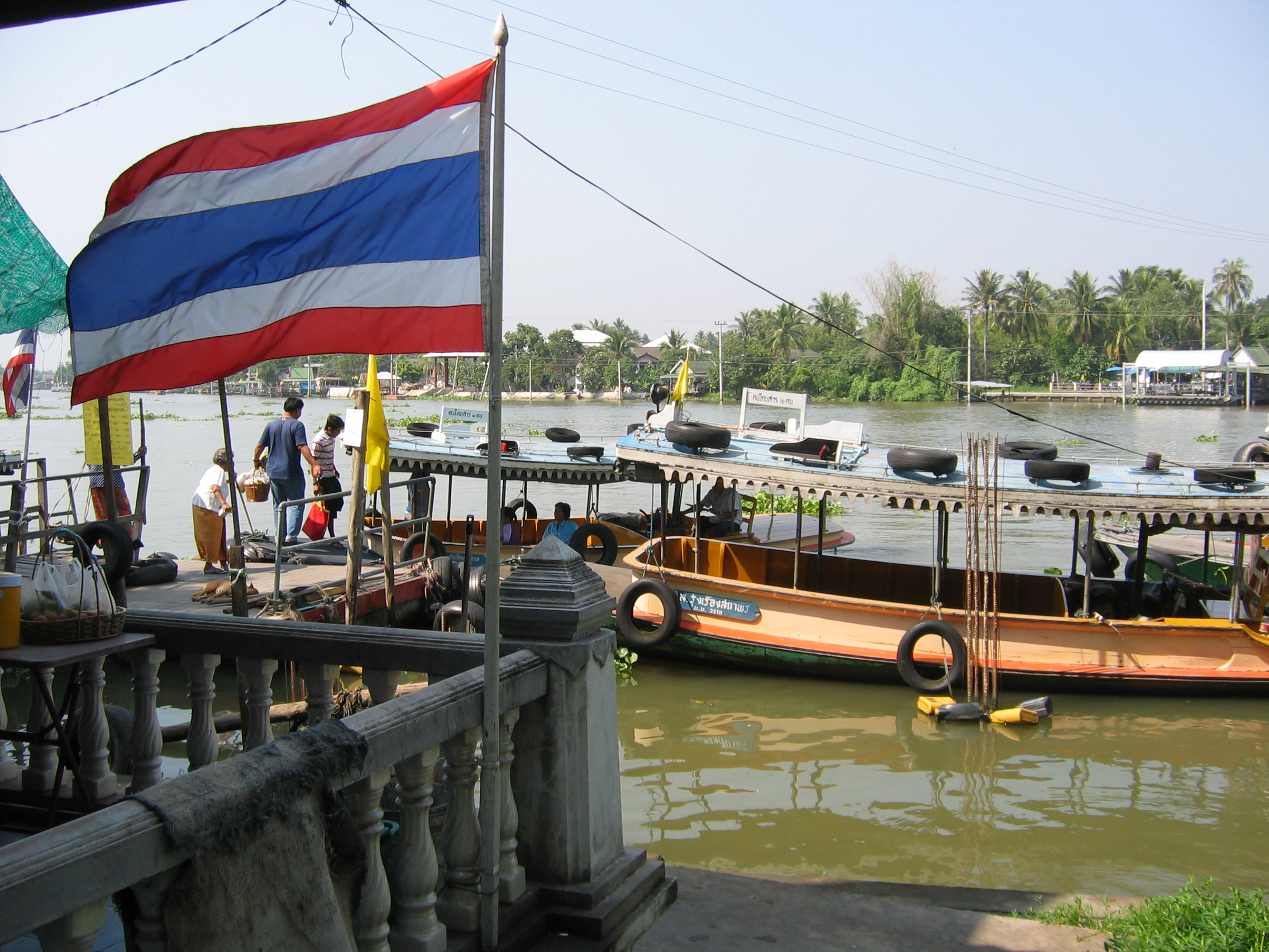 Pak Kred Pier, Thailand